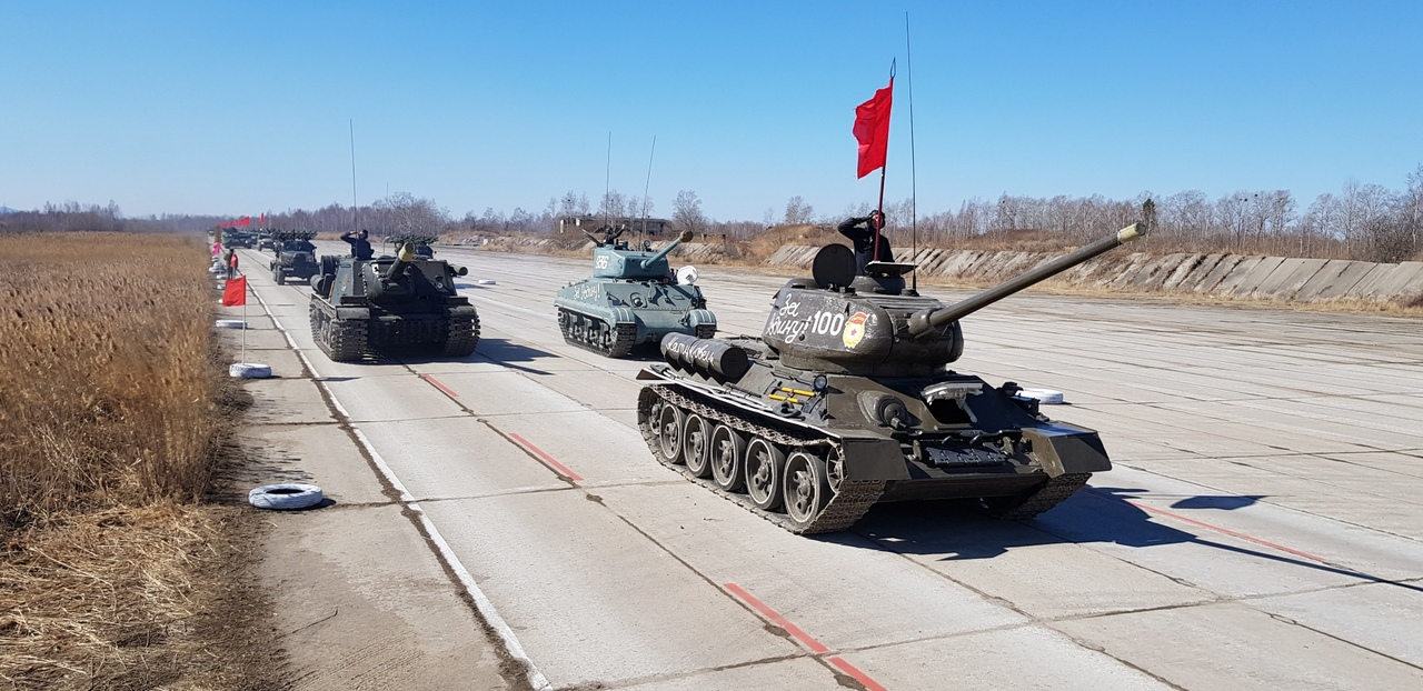 M4A2 Sherman in Khabarovsk 2019